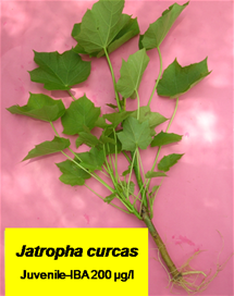 (Vegetative propagation of Jatropha curcus by stem cuttings Author: Kumarsukhadeo Prakash Gadekar, M.Sc. Forestry Thesis work, photo can downloaded Jatropha curcas Juvenile-IBA 200 µg/l